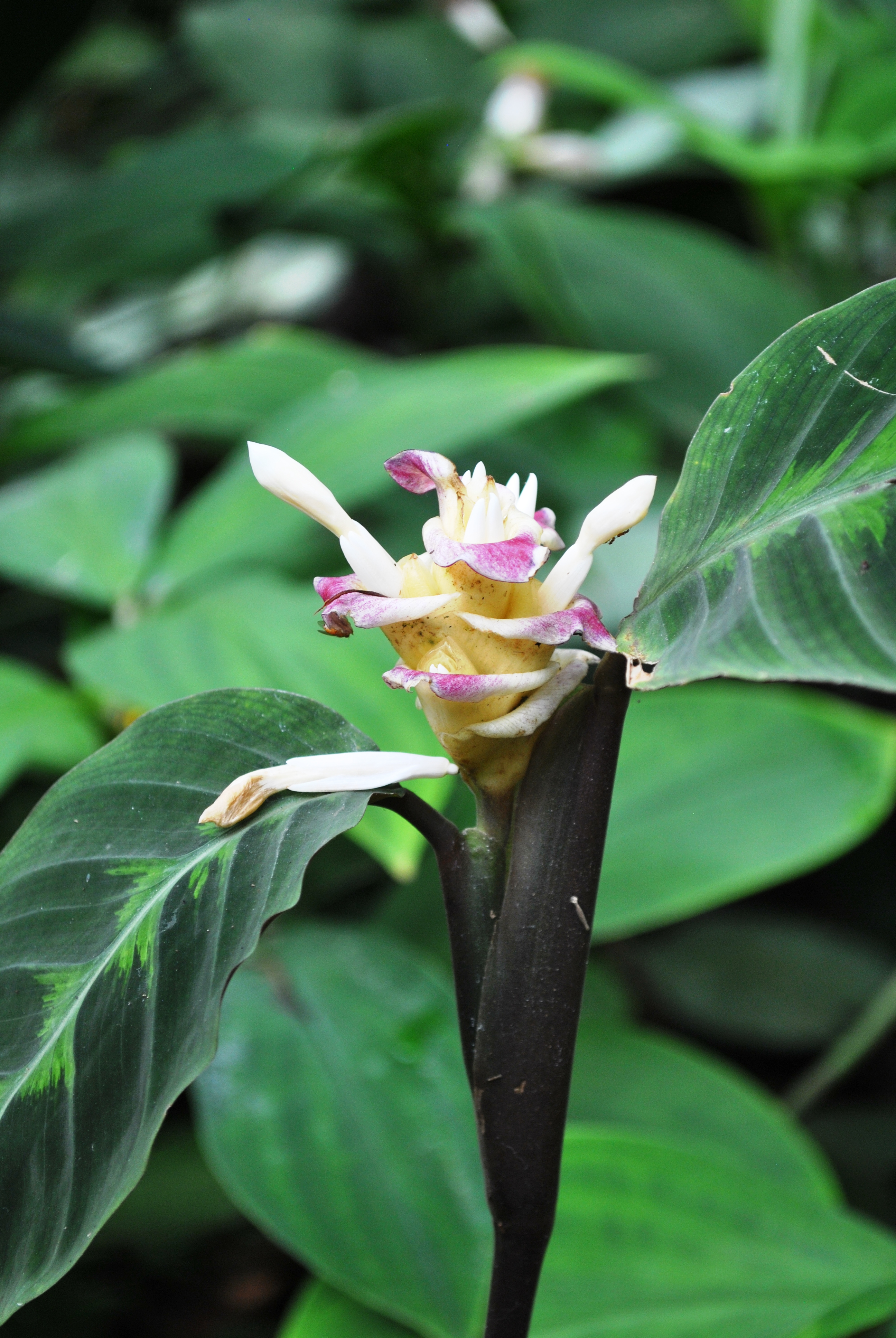 Calathea elliptica (Roscoe) K.Schum. is an accepted name